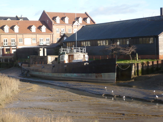 HM Customs Cutter Vigilant on Faversham Creek The ship was rescued from the breakers by the Medway Maritime Trust and towed to Faversham Creek for restoration in 2006. Viewed from Bridge Road. See http